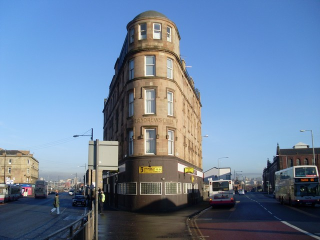 St Andrews Cross Interestingly-shaped tenement between Pollokshaws Road and Eglinton Street.